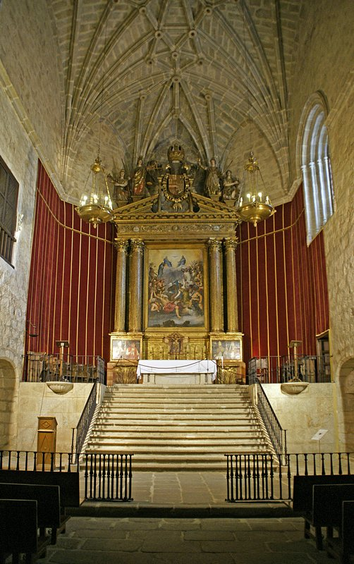 Iglesia del Monasterio de Yuste